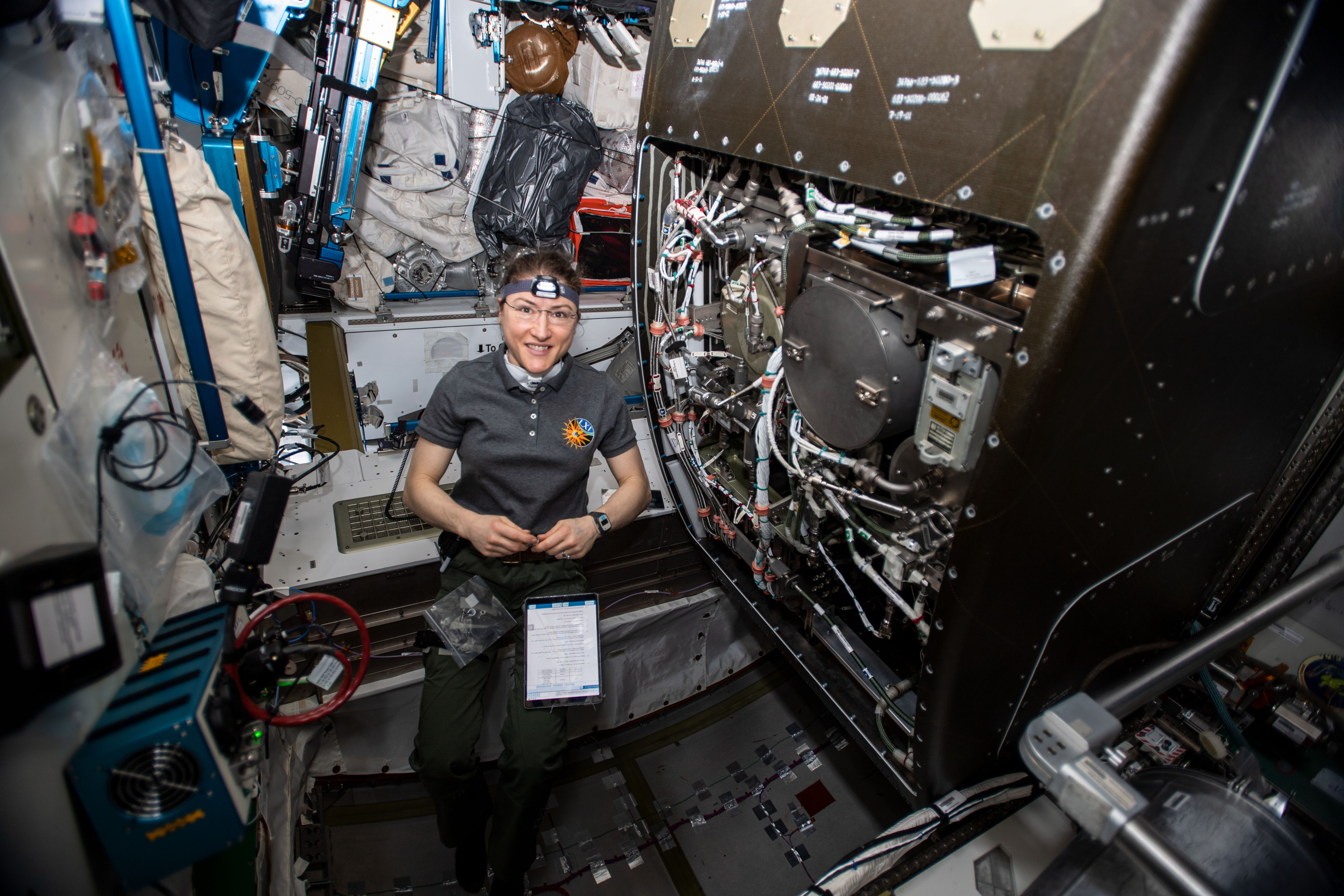 NASA astronaut Christina Koch works on orbital plumbing tasks as she replaces components inside the International Space Station's bathroom, the Waste and Hygiene Compartment, located in the Tranquility module.